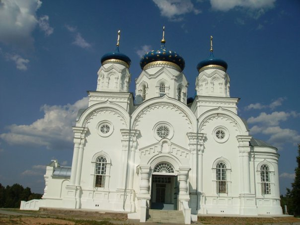 woman monastery from village Kutuzovka